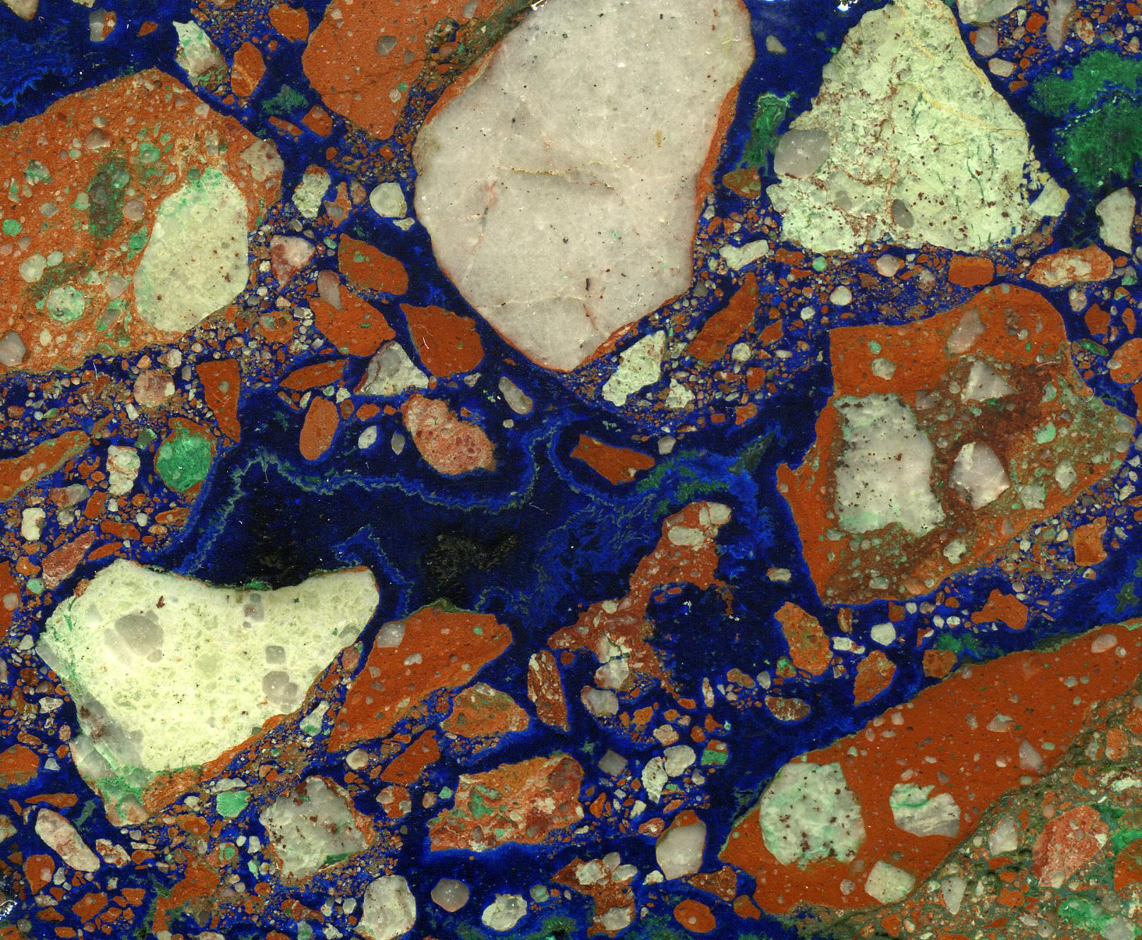 Azurite-cemented breccia from Arizona, USA. (cut & polished surface; field of view 8.1 cm across) Blue = azurite Green = malachite Brownish & whitish = breccia clasts A mineral is a naturally-occurring, solid, inorganic, crystalline substance having a fairly definite chemical composition and having fairly definite physical properties. At its simplest, a mineral is a naturally-occurring solid chemical. Currently, there are over 4900 named and described minerals - about 200 of them are common and about 20 of them are very common. Mineral classification is based on anion chemistry. Major categories of minerals are: elements, sulfides, oxides, halides, carbonates, sulfates, phosphates, and silicates. The carbonate minerals all contain one or more carbonate (CO3-2) anions. Malachite and azurite are attractive, richly colored copper hydroxy-carbonate minerals. Malachite has a nice green color - its formula is Cu2CO3(OH)2. Azurite has a dark, rich blue color - its formula, Cu3(CO3)2(OH)2, is very close to malachite. The blue color of azurite is from Cu+, while the green color of malachite is from Cu+2. Azurite & malachite almost invariably occur together, and are telling indicators of copper in the field, even in very small quantities. Blue azurite tends to crystallize first, and can convert to green malachite. Some azurite-malachite specimens are solid enough to be cut and polished as semi-precious stone. The rock shown above is a breccia with clasts mostly cemented together by azurite, plus minor malachite. Locality: 5100’ level of the Phelps Dodge Morenci Mine (an open-pit mine on the western side of Chase Creek), north of the town of Morenci, western Greenlee County, southeastern Arizona, USA (33° 05’ 26” North latitude, 109° 21’ 58” West longitude) Photo gallery of malachite: Photo gallery of azurite